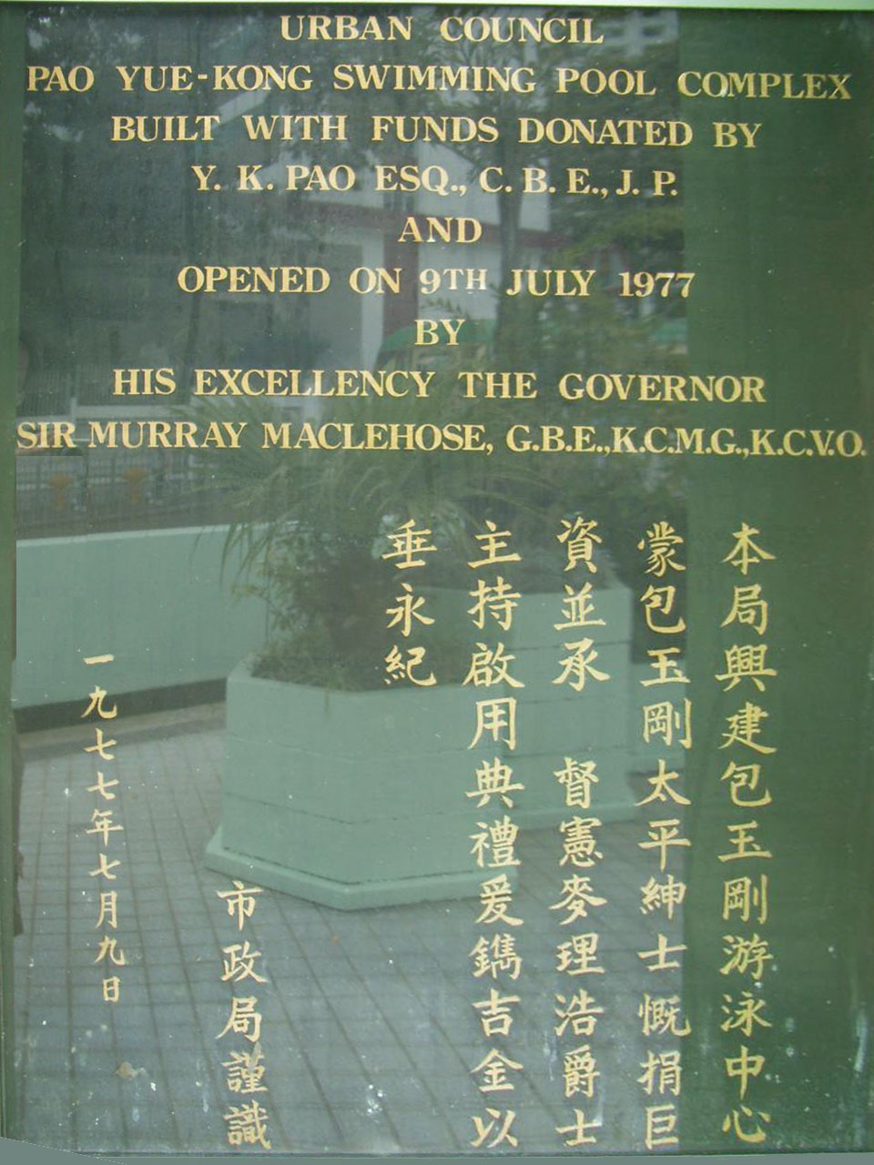 香港島 包玉剛游泳池